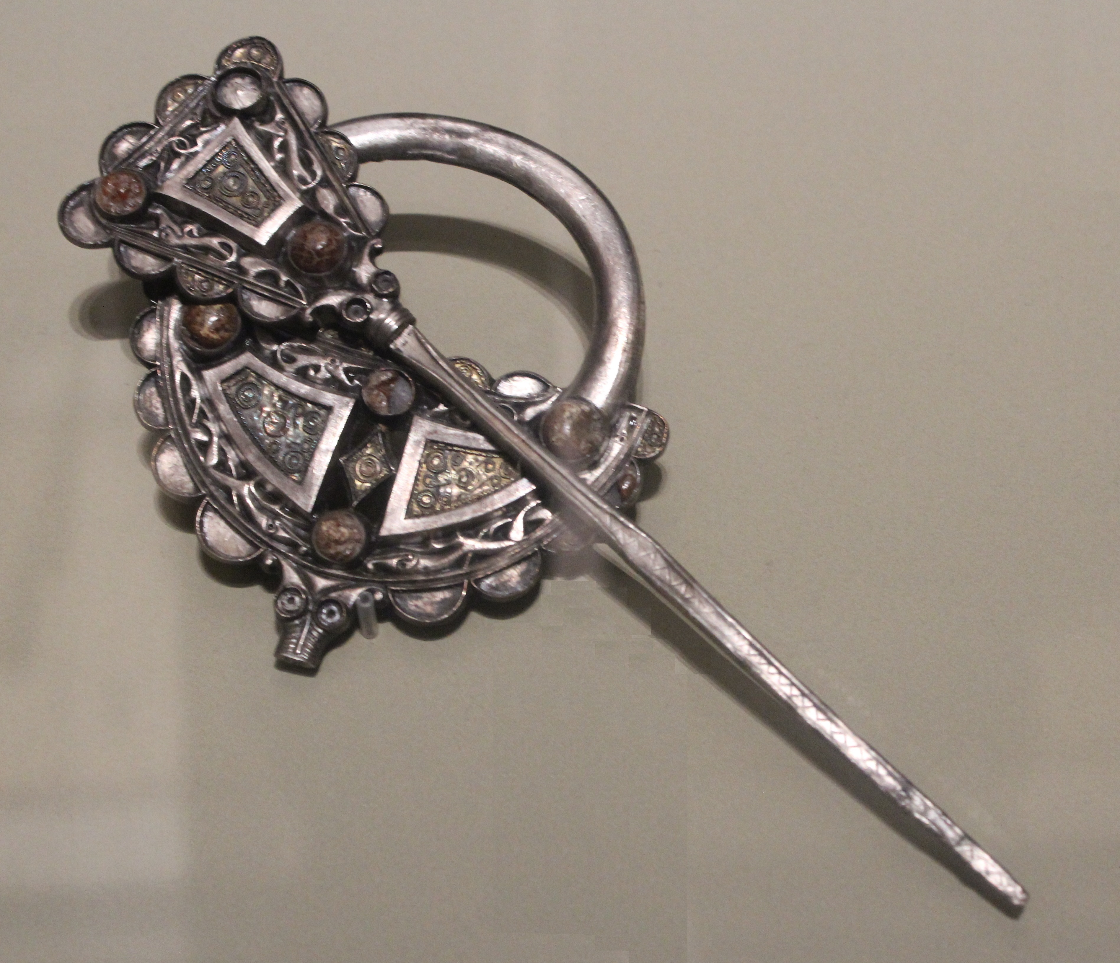 Late 9th Century silver annular brooch, 9.5 cm in length, found near Roscrea, Co Tipperary. It is of a classical Irish design and craftsmanship, but uses Viking materials and technology, particularly silver and amber. It is thus is of great archelogical importance as it shows a fusion of the two traditions. It is on display at the National Museum of Ireland.[1] It is object number 38 of A History of Ireland in 100 Objects.